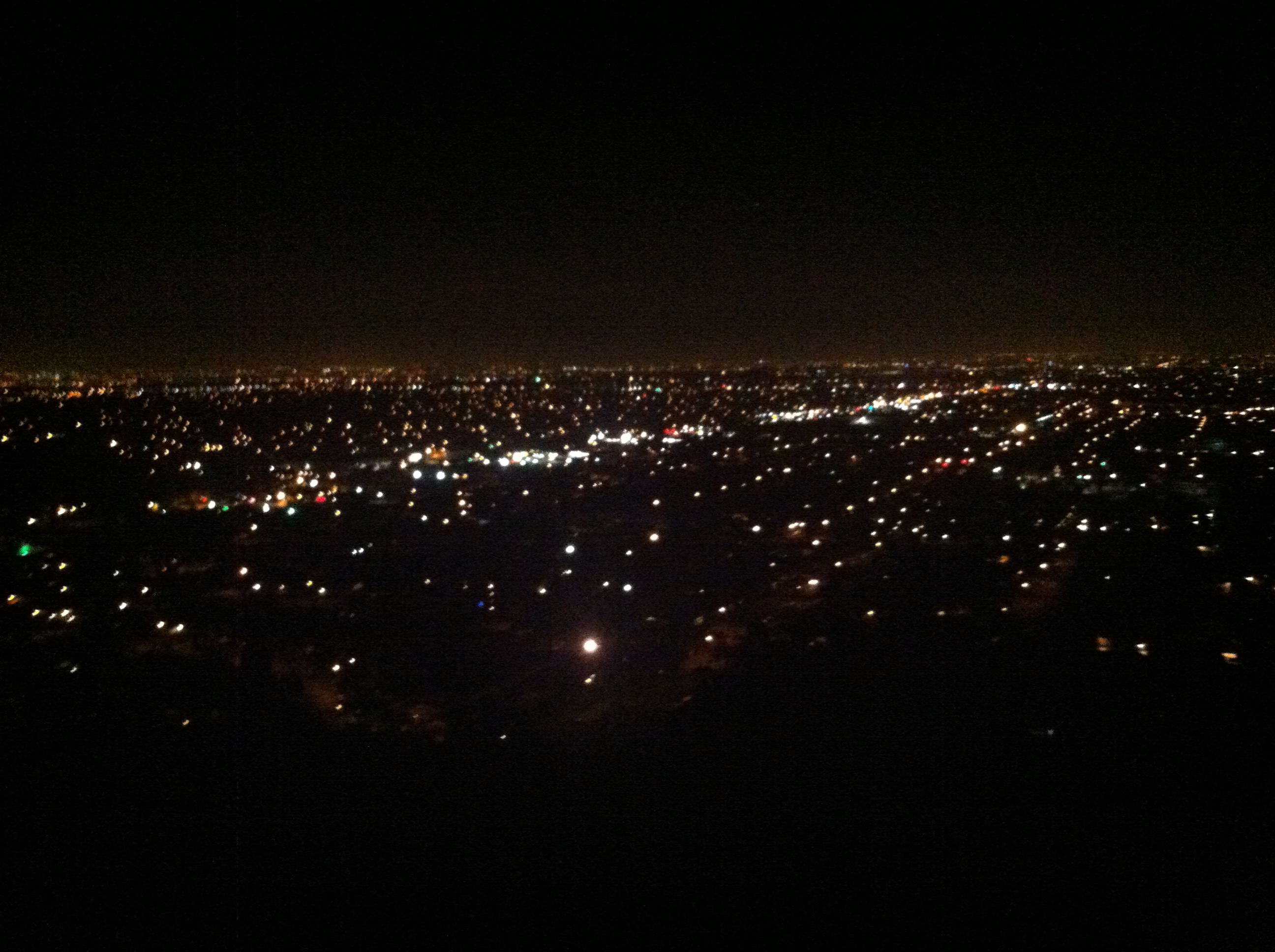 View from a trail in the El Modena Open Space at night. Most of northwest Orange County, California (including El Modena High School, Santiago Middle School, and Orange Park Acres) can be seen here.